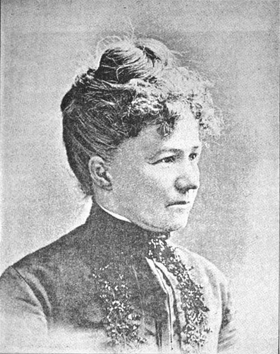 Mary R. P. Hatch